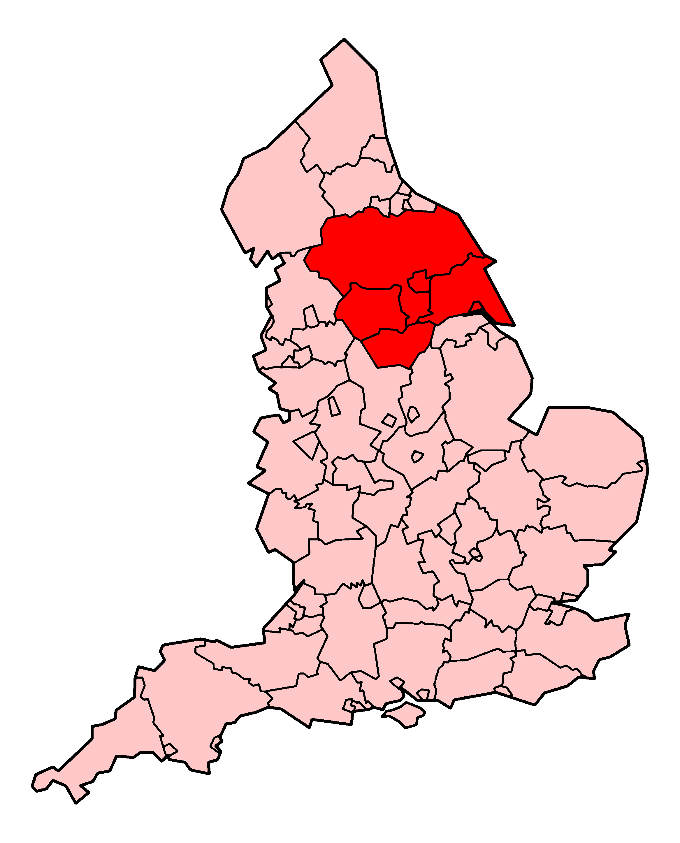 Map of Yorkshire Ambulance Service's coverage area